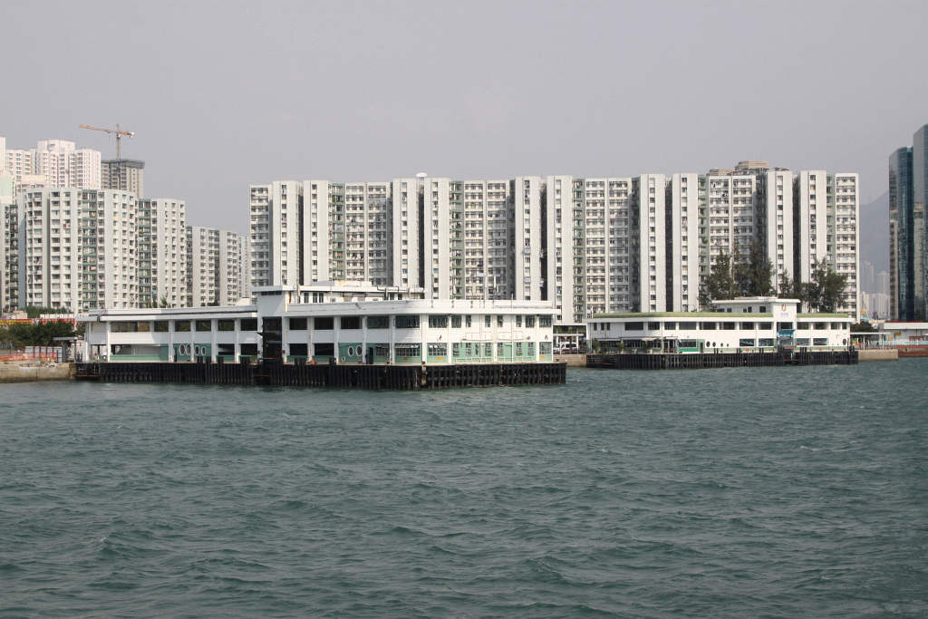 Hung Hom Ferry Pier: West berth / Star Ferry pier in foreground, East berth / New World First Ferry pier in background.